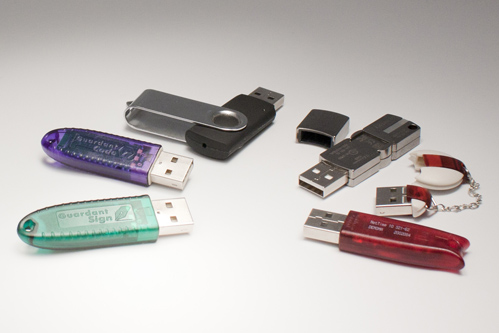 Several Hardware-Dongles for copy-protection: Guardant Sign, Guardant Code, Senselock FL-STD, Wibu CodeMeter, Senselock EL_Genii, HASP TimeNet